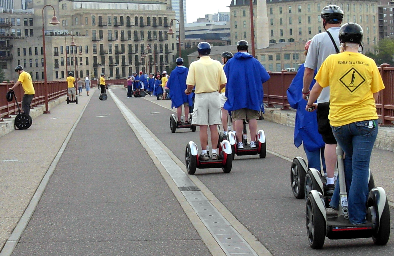 Segway tour on the Mississippi River Stone Arch Bridge in Minneapolis, Minnesota